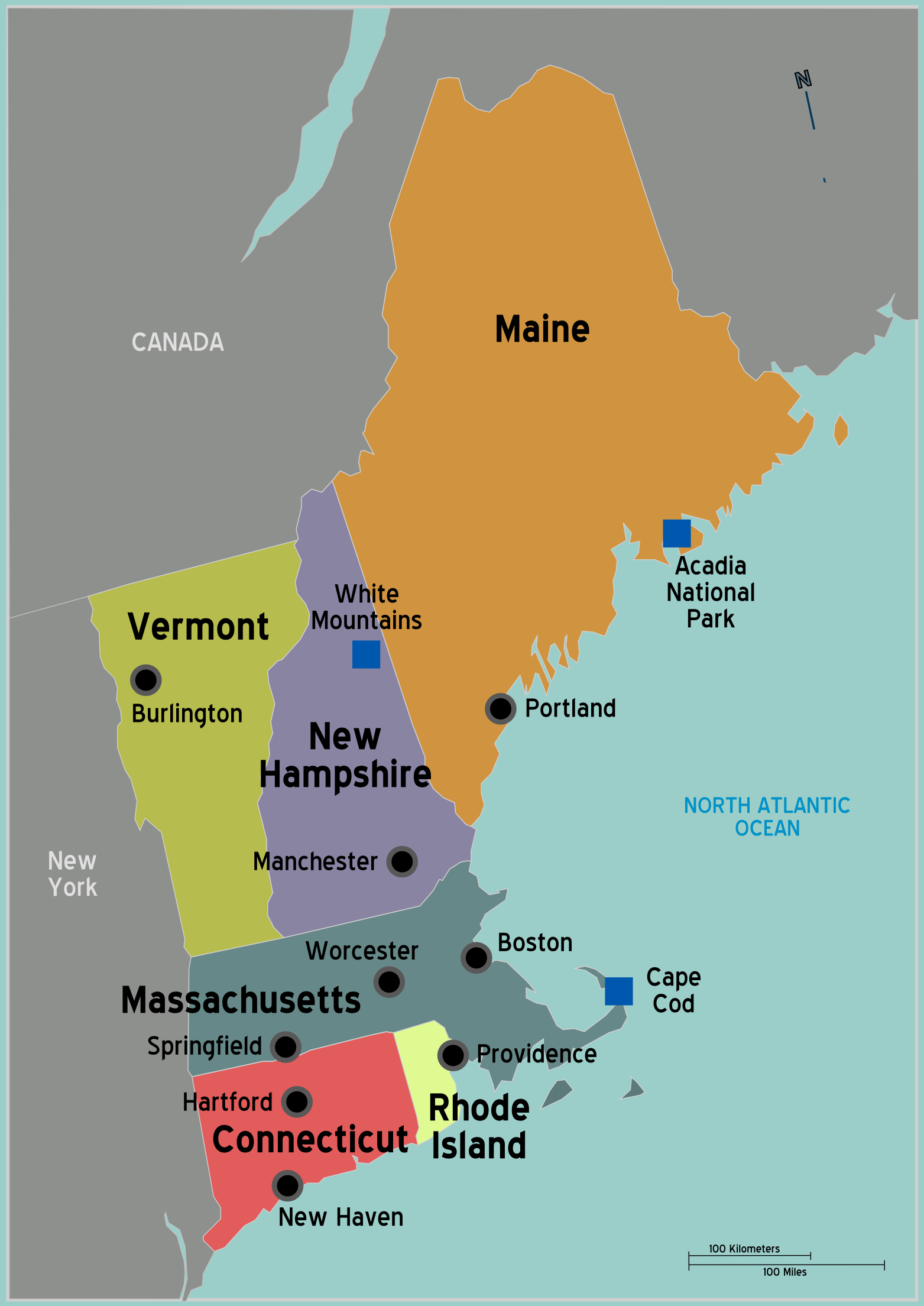 Map of New England. Regions, Cities and Other destinations, New England Map of: the United States¤.